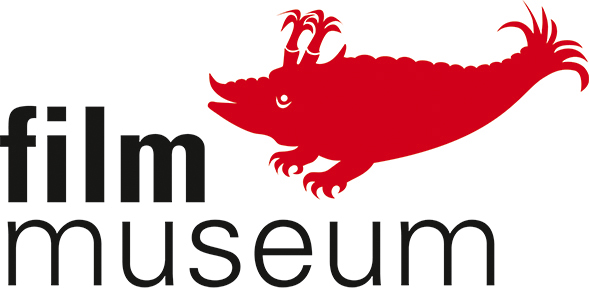 Logo Austrian Film Museum